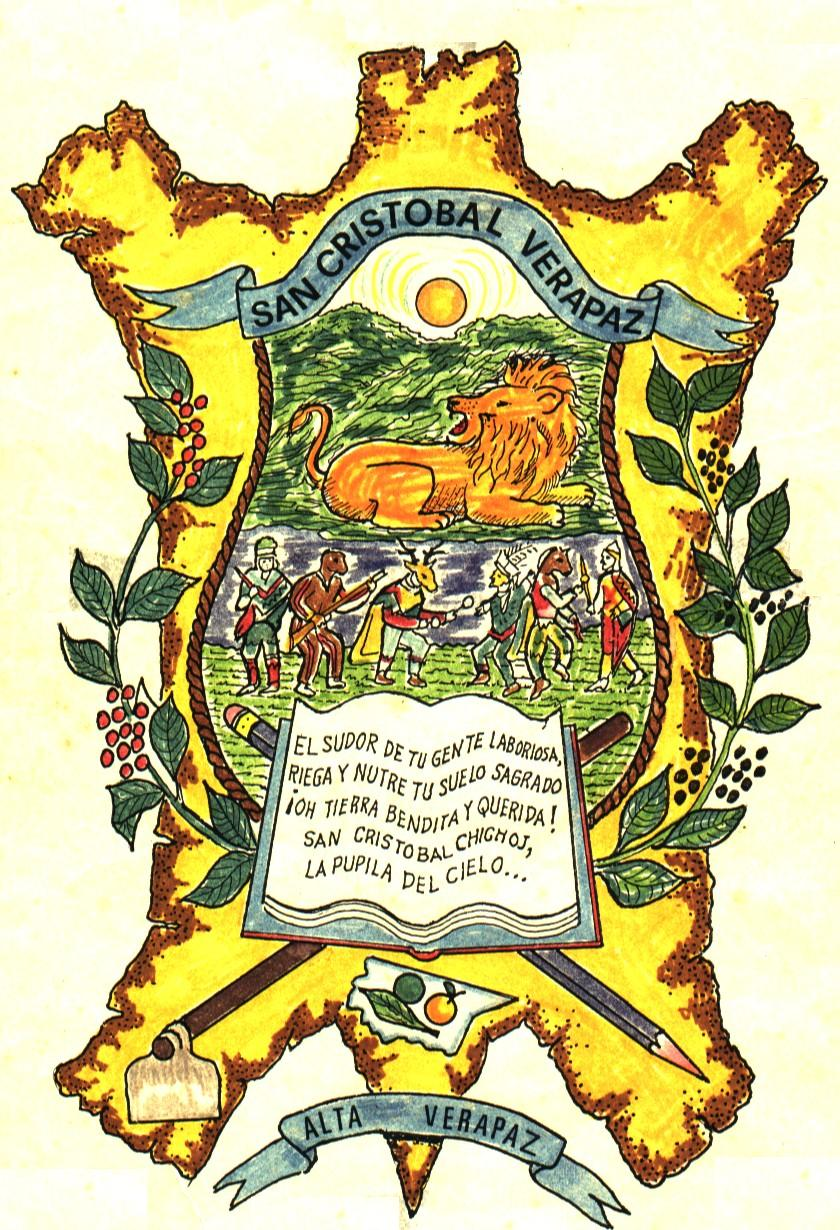 Logotipo Municipalidad de San Cristóbal Verapaz